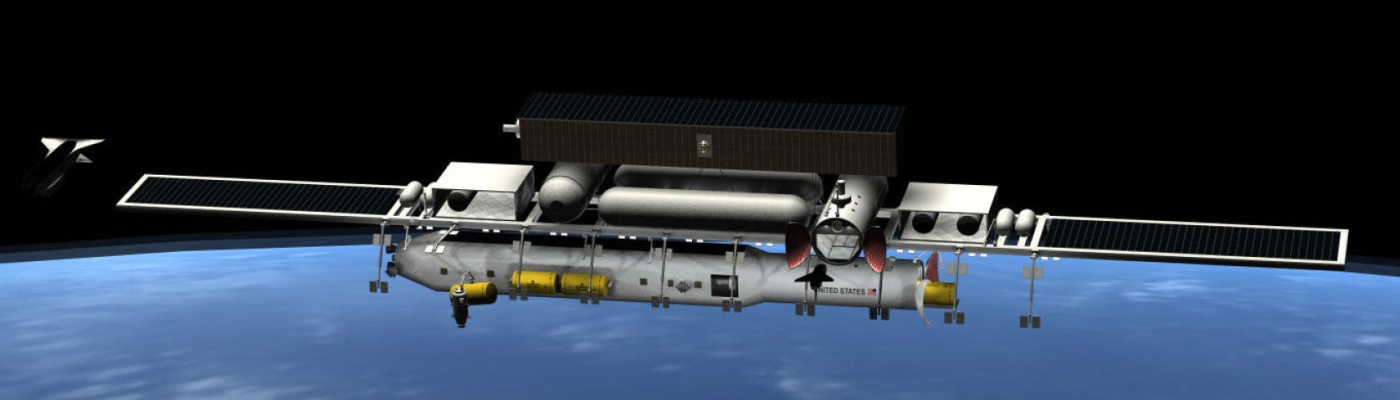 Concept design of a LEO Space dock proposed by the American Institute of Aeronautics and Astronautics. Showing a large spaceship being constructed by robotic arms underneath the main truss, and a spaceplane entering an enclosed hangar.